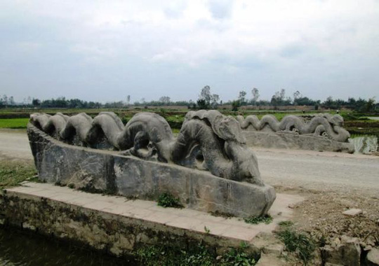 ky by doi rong da